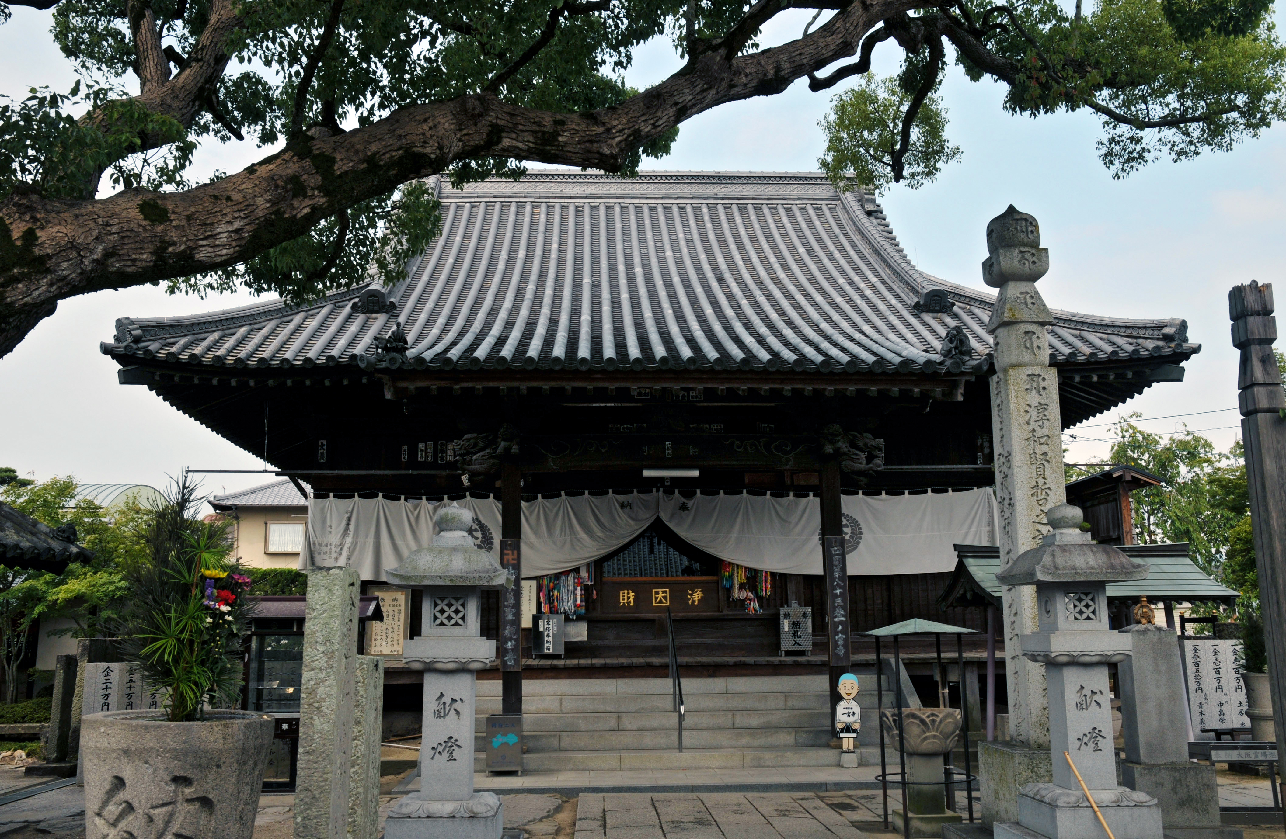 Main temple, Ichinomiya-ji